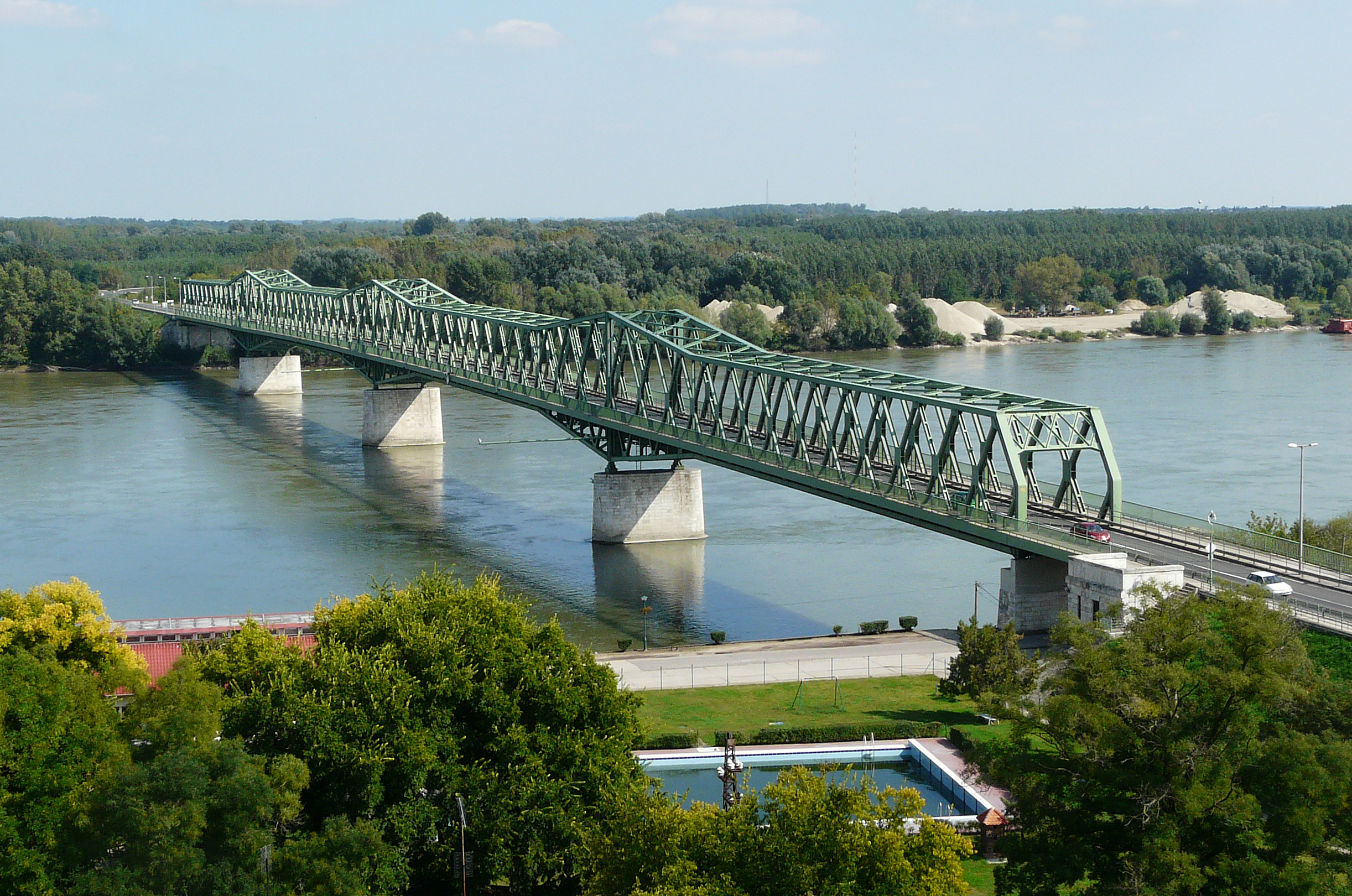 The bridge at Dunaföldvár